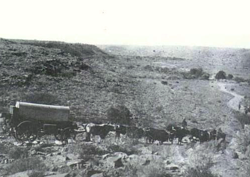 Wagons of the Palgrave Mission - Kunjas Namibia - Windhoek Archives